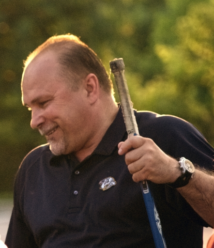 Barry Trotz, coach of the Nashville Predators